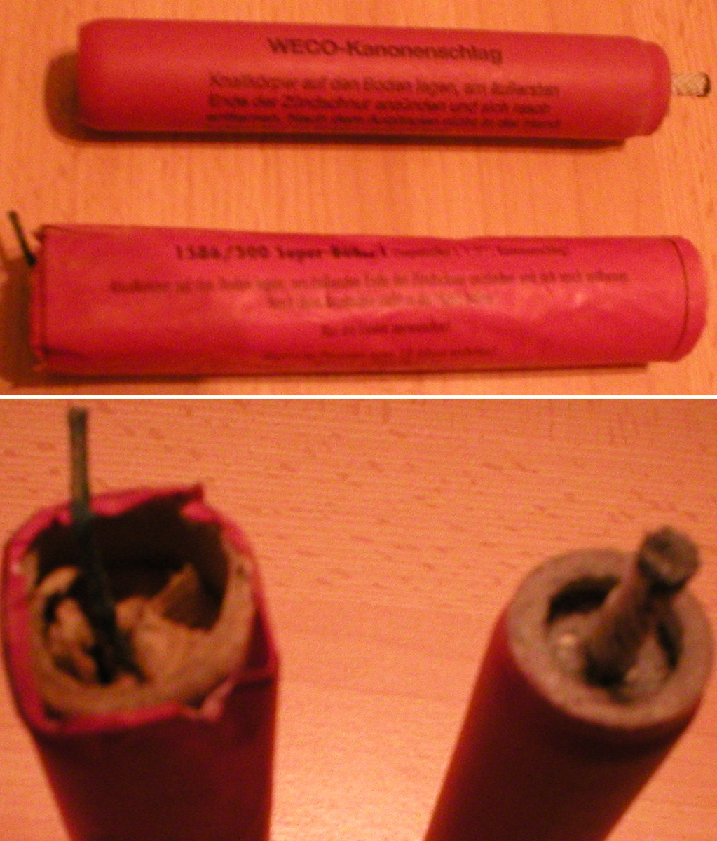 fire cracker "Kanonenschlag", Chinese (bottom and left) and German (top and right) type